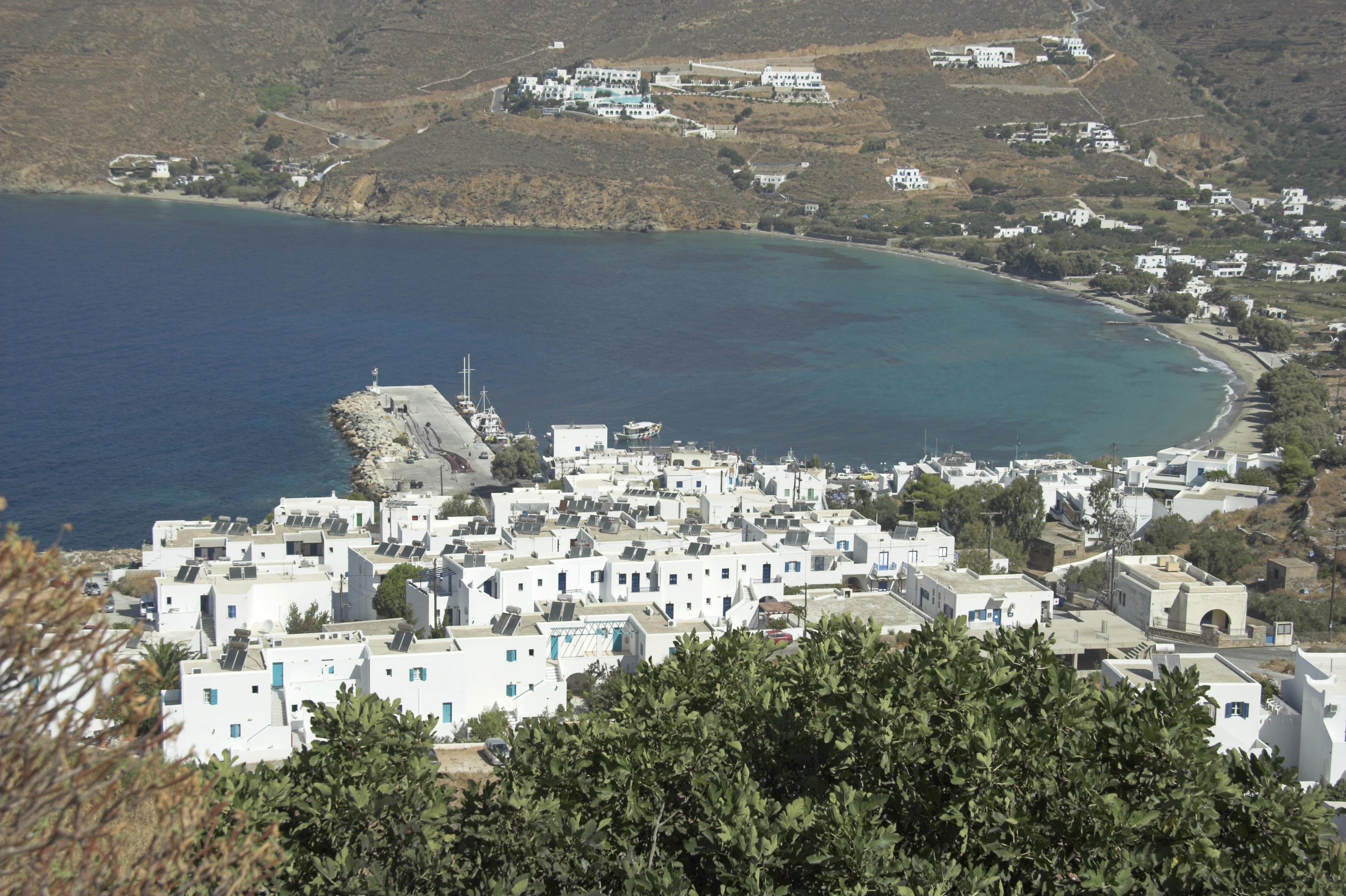 Port in Ormos Aigiali from way to Potamos and Chora of Amorgos.